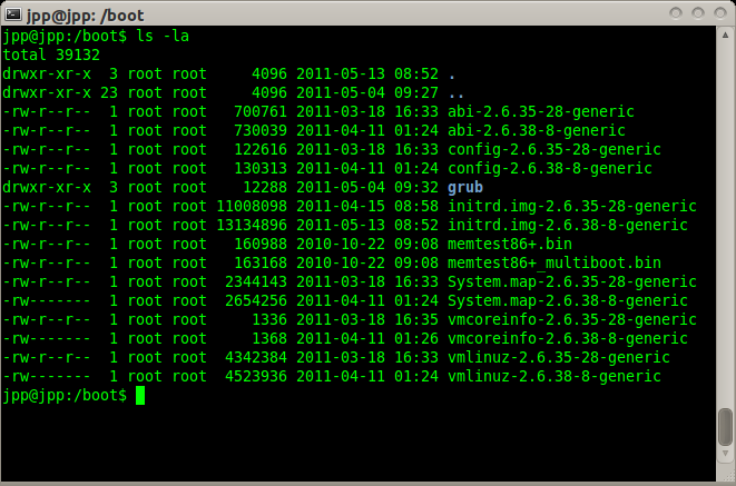 This is the ls command result in a linux terminal.